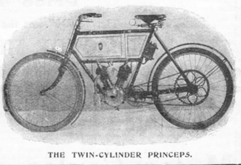 Image is taken from an advert in Motor Cycling magazine, November 12th 1902, for the new 1903 motorcycle models from the Princeps Autocar Co, Northampton, England. For full advert see File:Princeps_Advert_for_Early_V-Twin_Motorcycle_(1902).jpg